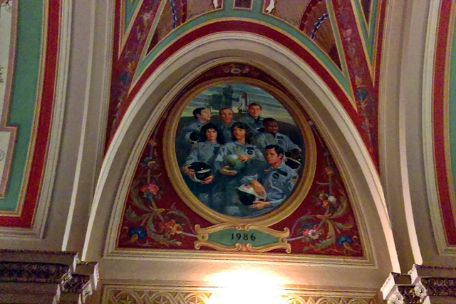 An unpainted decorative oval in the Brumidi Corridors of the United States Capitol was finished with a portrait depicting the crew by Charles Schmidt in 1987. The scene was painted on canvas and then applied to the wall. Image taken in 2017.